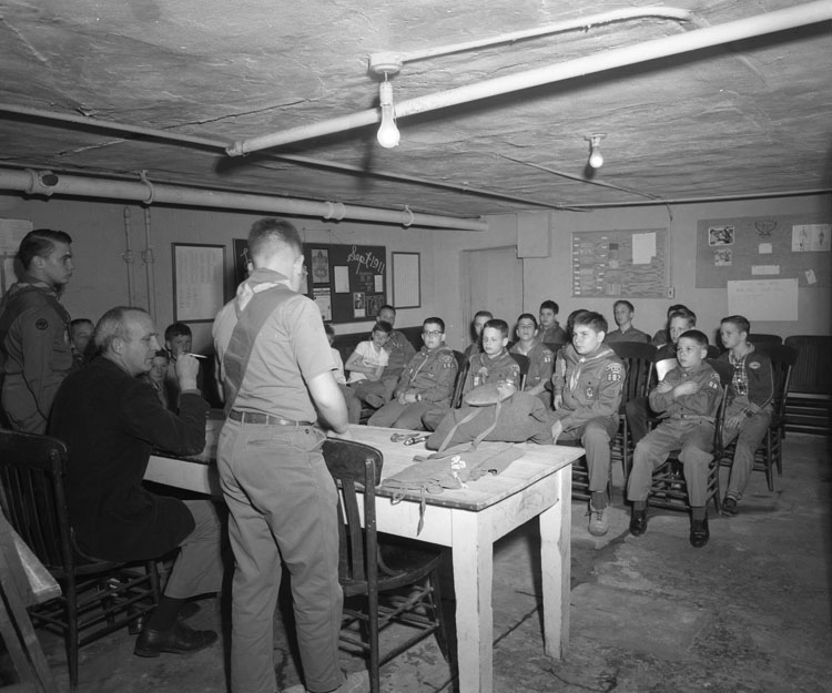 Title: Boy Scouts Creator: Adolph B. Rice Studio Date: 1960 Apr. 9 Identifier: Rice Collection 2793C Format: 1 negative, safety film, 4 x 5 in. Repository: Library of Virginia, Prints and Photographs, 800 E. Broad St., Richmond, VA, 23219, USA, :8881/R